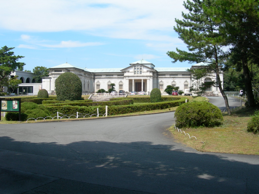 The Jingu History Museum (Jingu Chokokan) at Ise city Mie Prf. Japan.